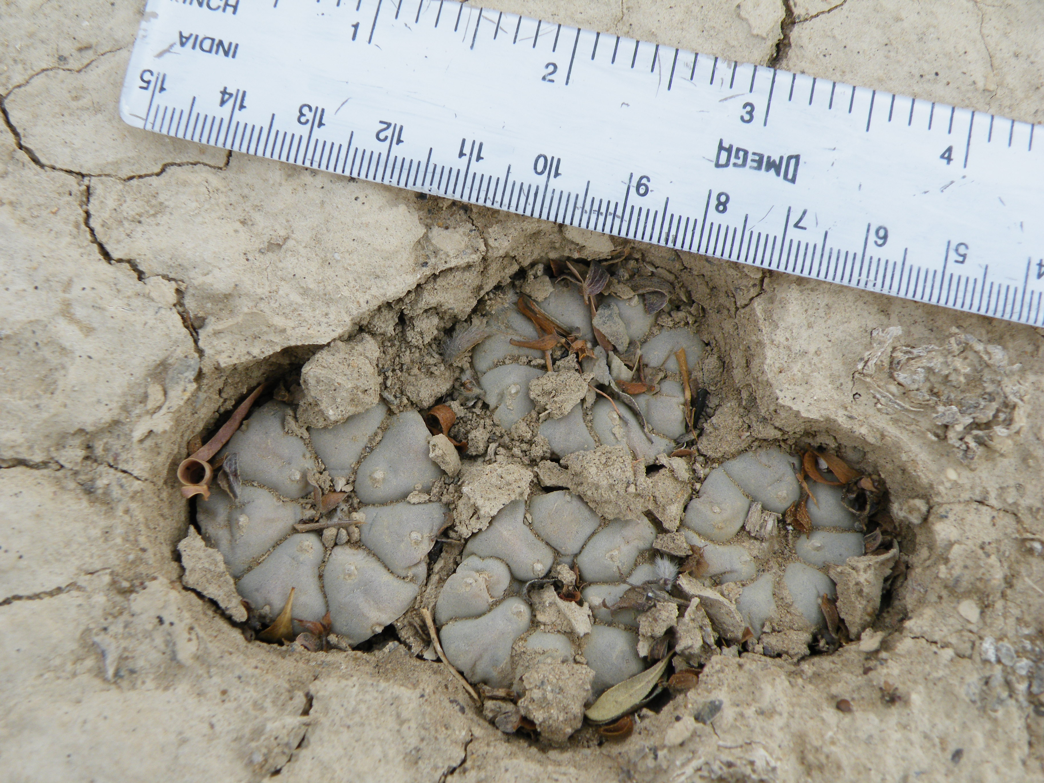 On the way to estacion Marte Position 14